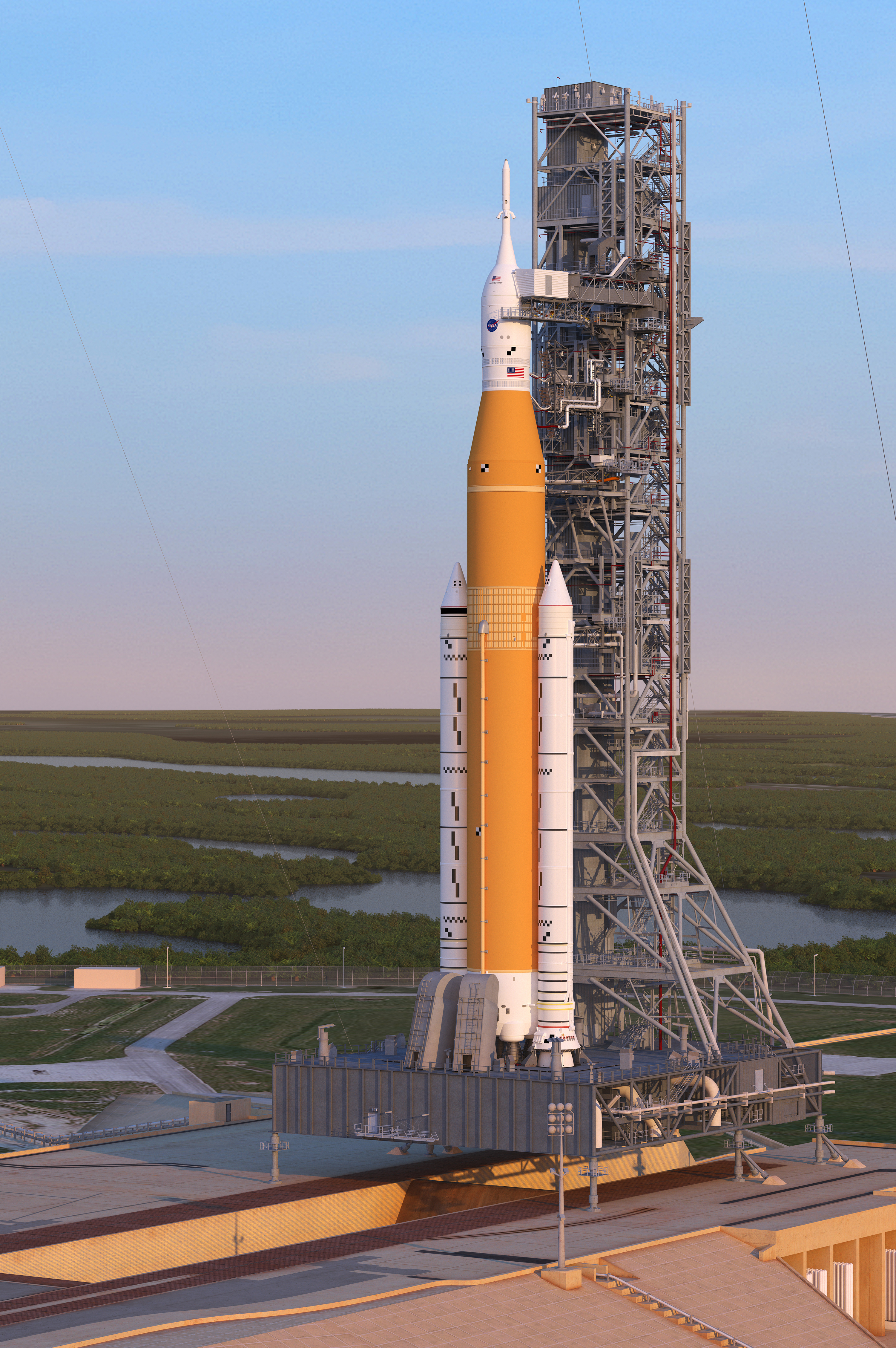 Artist's rendering of the Space Launch System Block 1 sitting on Launch Pad 39A with the Orion spacecraft at sunrise.